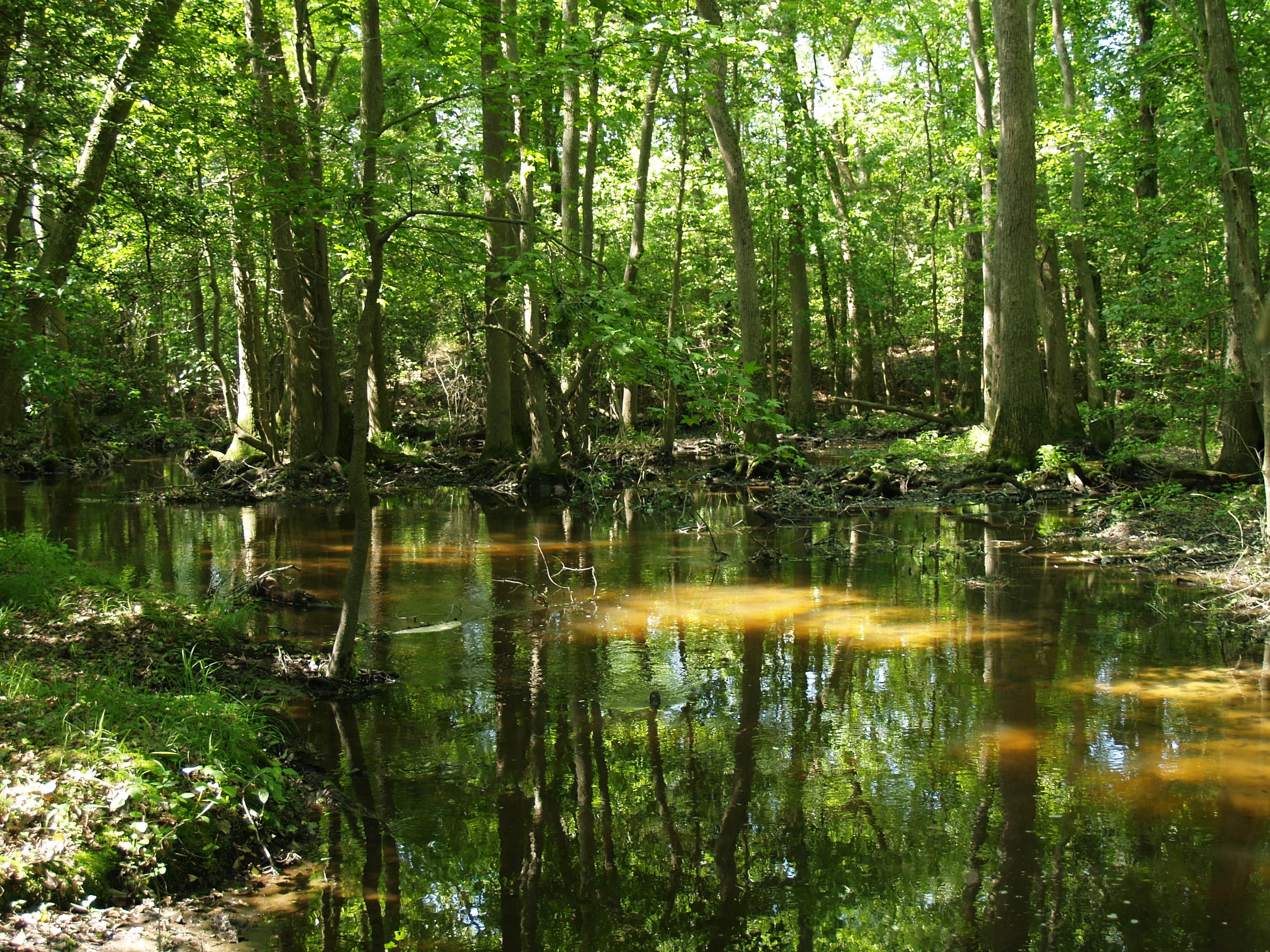 Clear Brook downstream of Hearns Pond in Sussex County, Delaware. Image was taken in 2008.